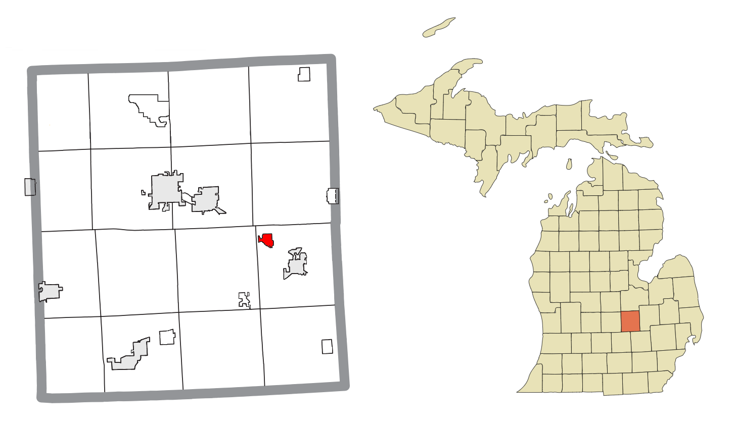 Vernon, MI